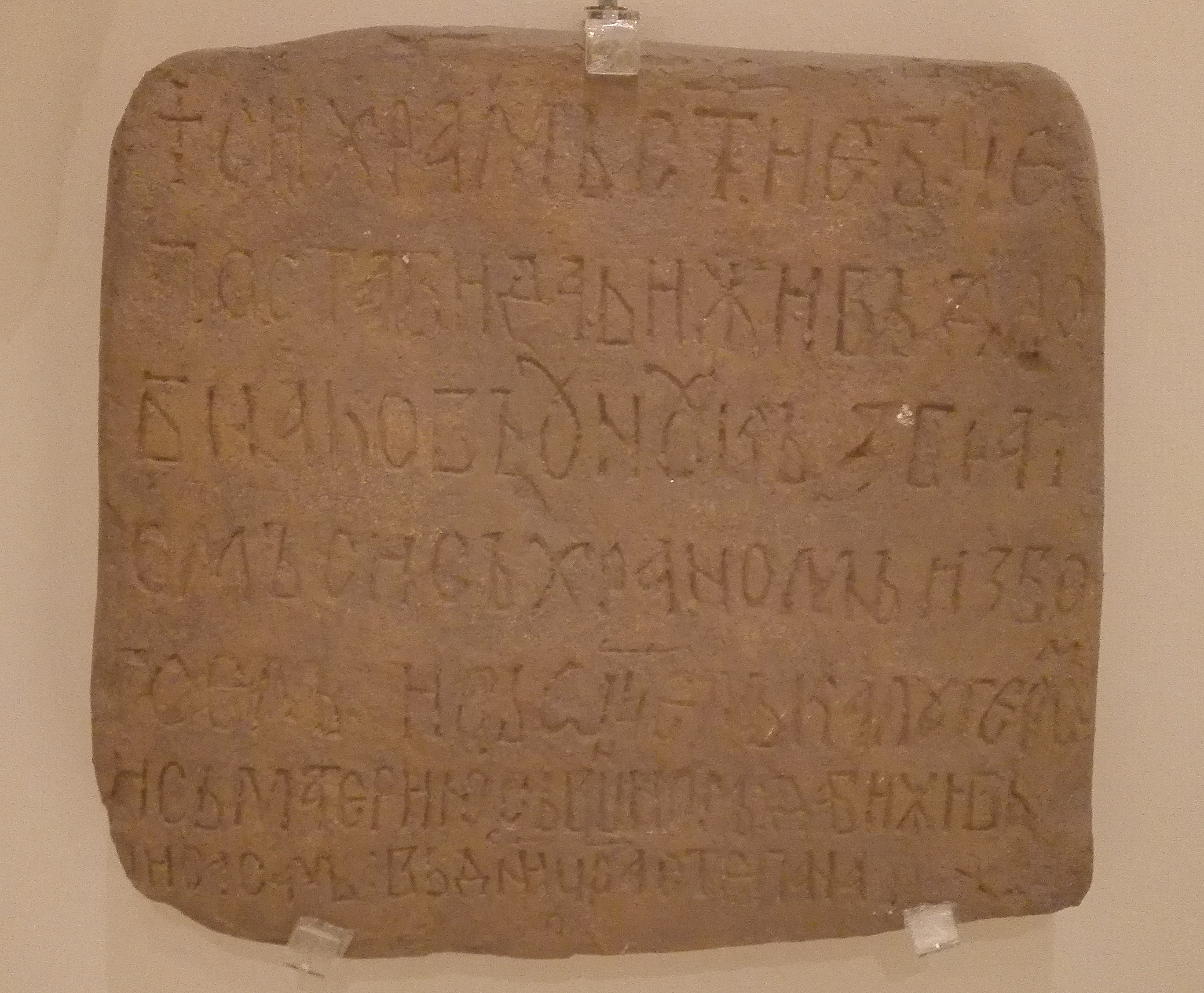 Ktetorial inscription of nobleman Dabiživ, Church of the Mother of God in Vaganeš near Novo Brdo, mid-14th century, copy. Cast by Dragan Petrović and Stoiša Vselinović, 1971. Gallery of frecsoes of the National Museum in Belgrade